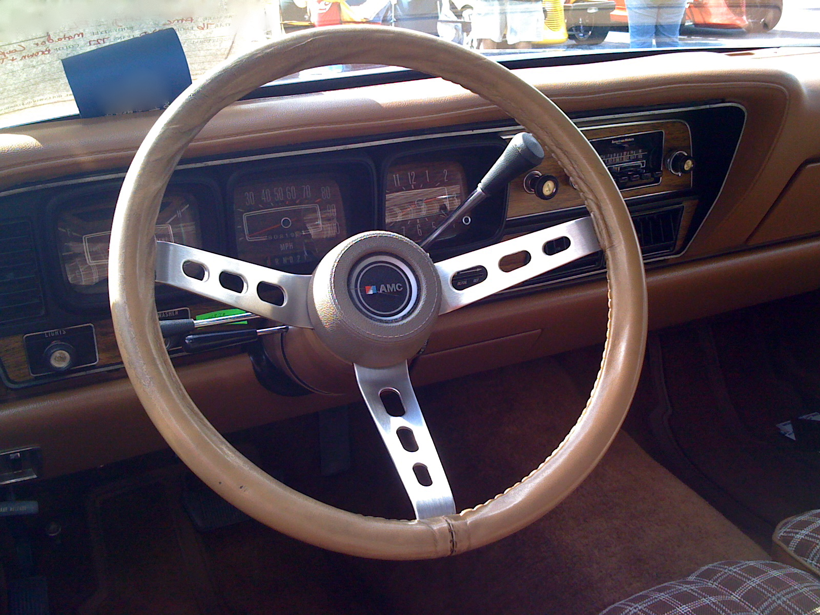 1976 AMC Matador Coupe - Brougham edition finished in Dark Cocoa Metallic (paint code: H4) with optional vinyl roof cover. AMC leather wrapped steering wheel (adjustable tilt column) and the dashboard.